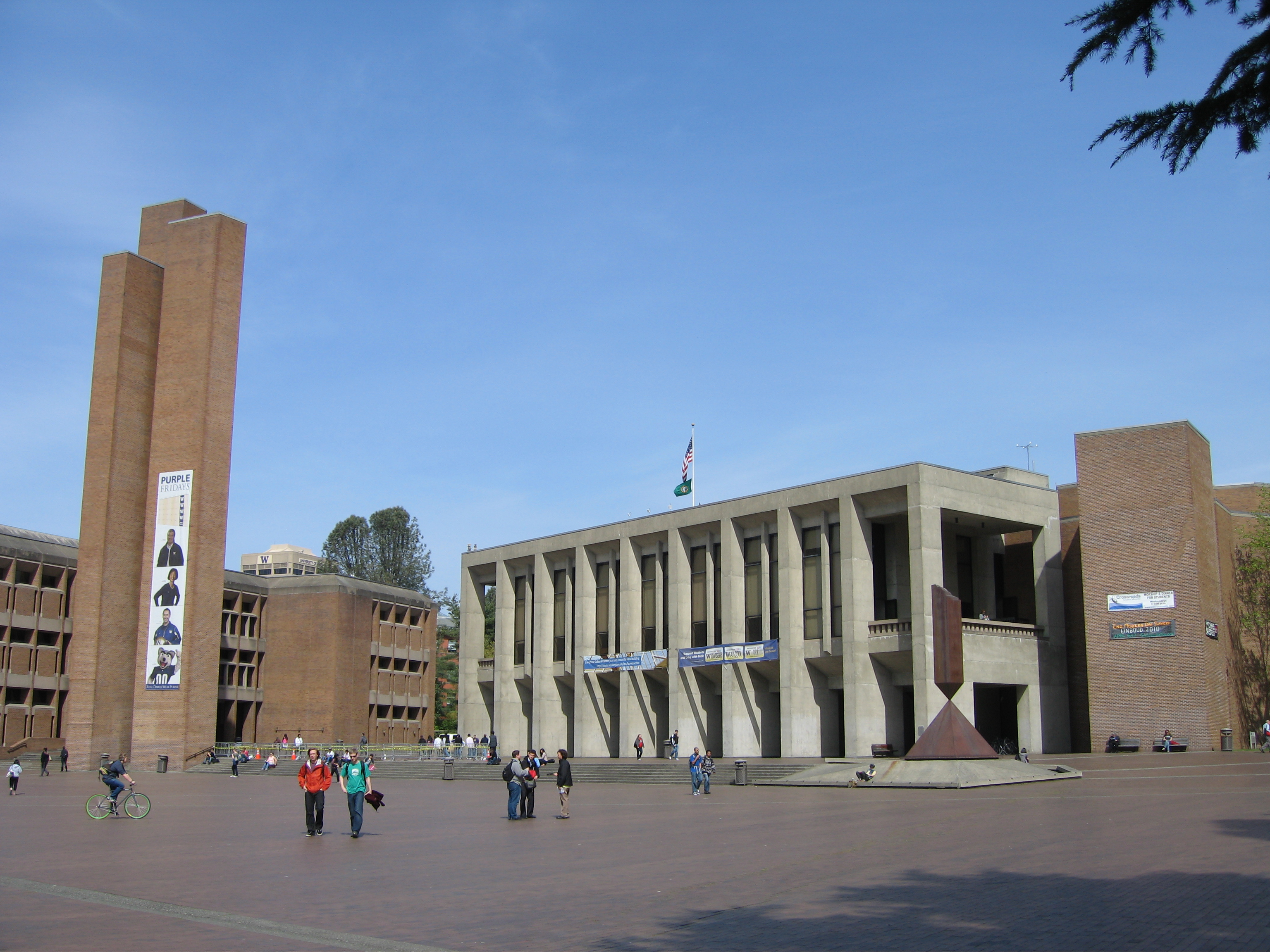 University of Washington: Red Square, with the Odegaard Undergraduate Library at left and Kane Hall at right.